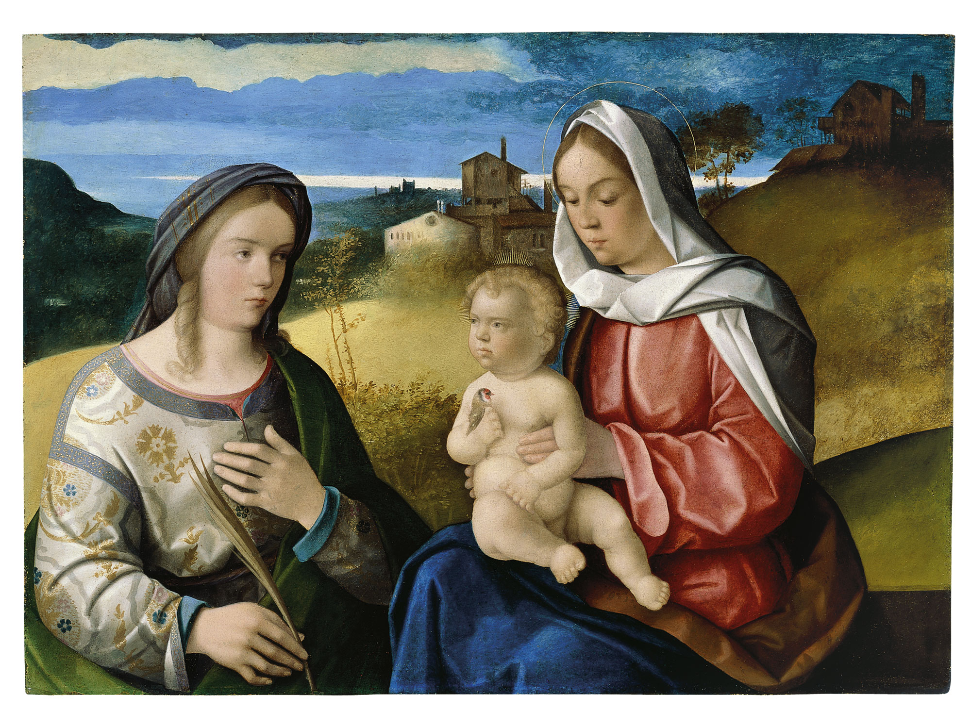 The Virgin and Child with Saint Agnes in a Landscapelabel QS:Len,"The Virgin and Child with Saint Agnes in a Landscape"